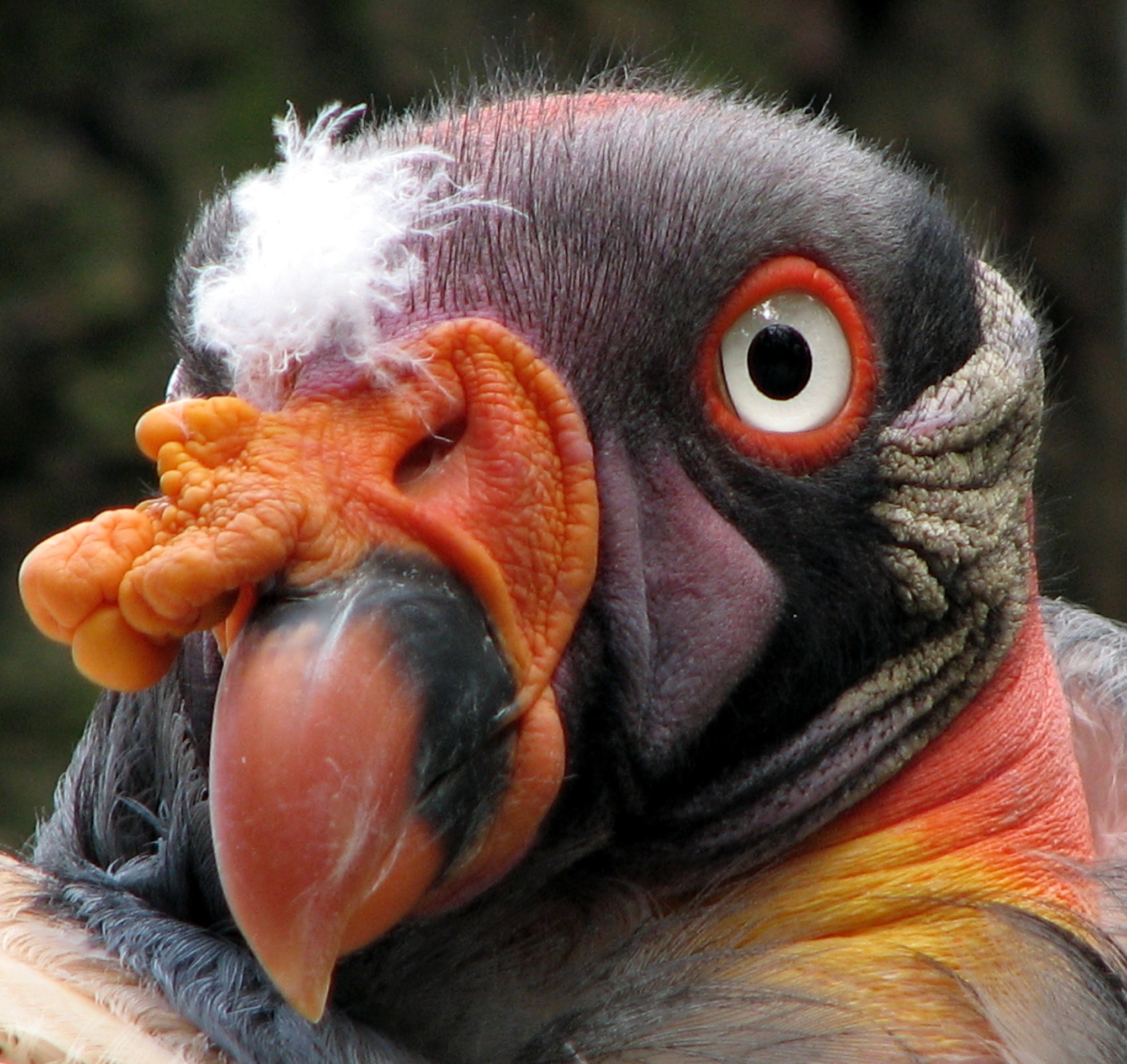 Sarcoramphus papa (aka king vulture) head closeup. The picture was taken at the Berlin Zoo.